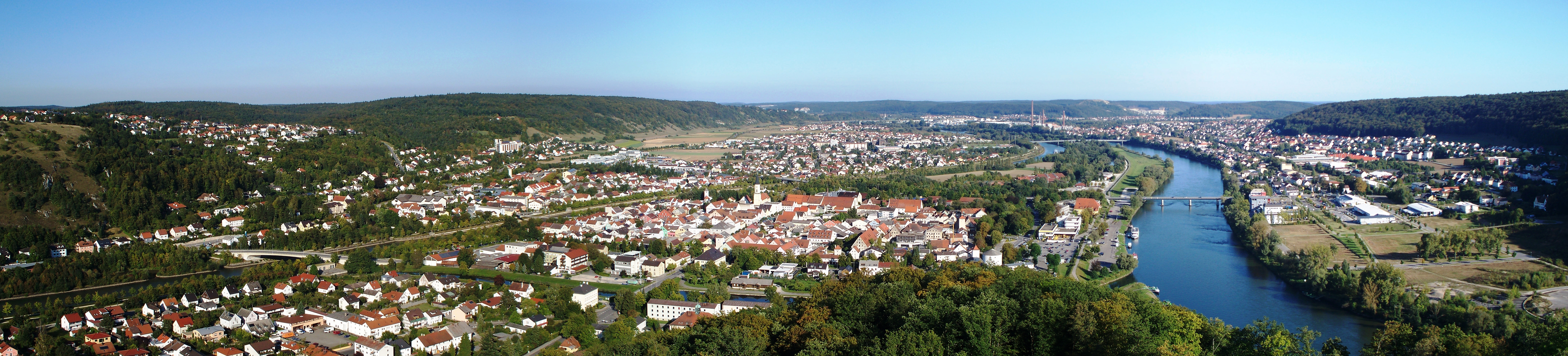 Kelheim is a municipality in Bavaria, capital of the district Kelheim. It is situated at the confluence of Altmühl and Danube. As of June 30, 2005, the town had a population of 15,667.